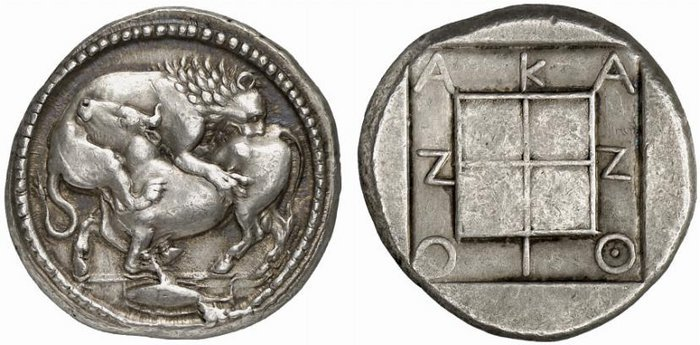 MACEDON, Akanthos. Circa 440. Tetradrachm (Silver, 17.24 g 7). Lion to right, attacking bull, with head raised, collapsing to left; in exergue, fish swimming to left Rev. ΑΚΑΝΘΙΟΝ Raised quadripartite square surrounded by inscription; all within shallow incuse square.